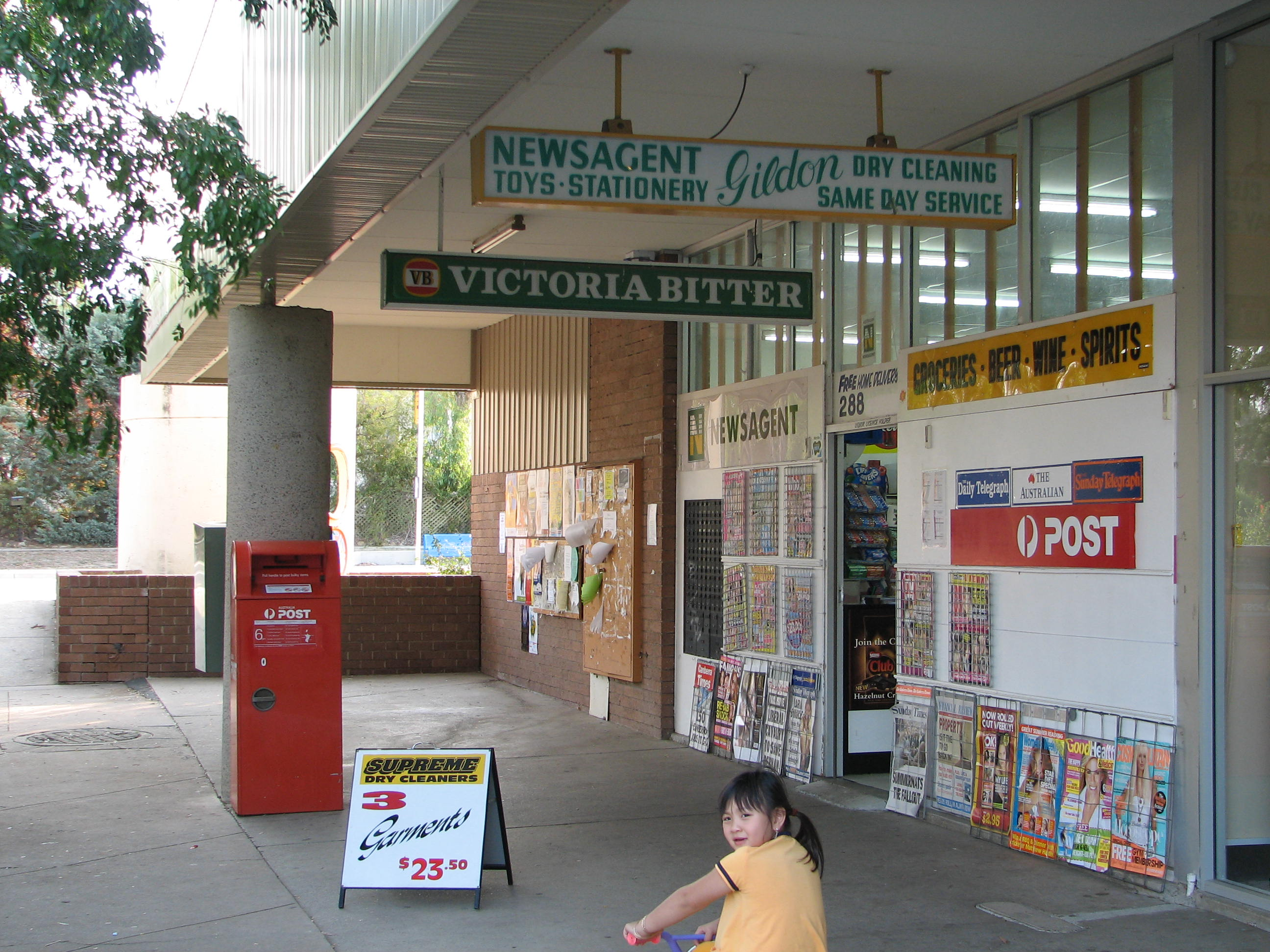 Local shops in Fisher, Australian Capital Territory. Taken by me on 14th January 2007.